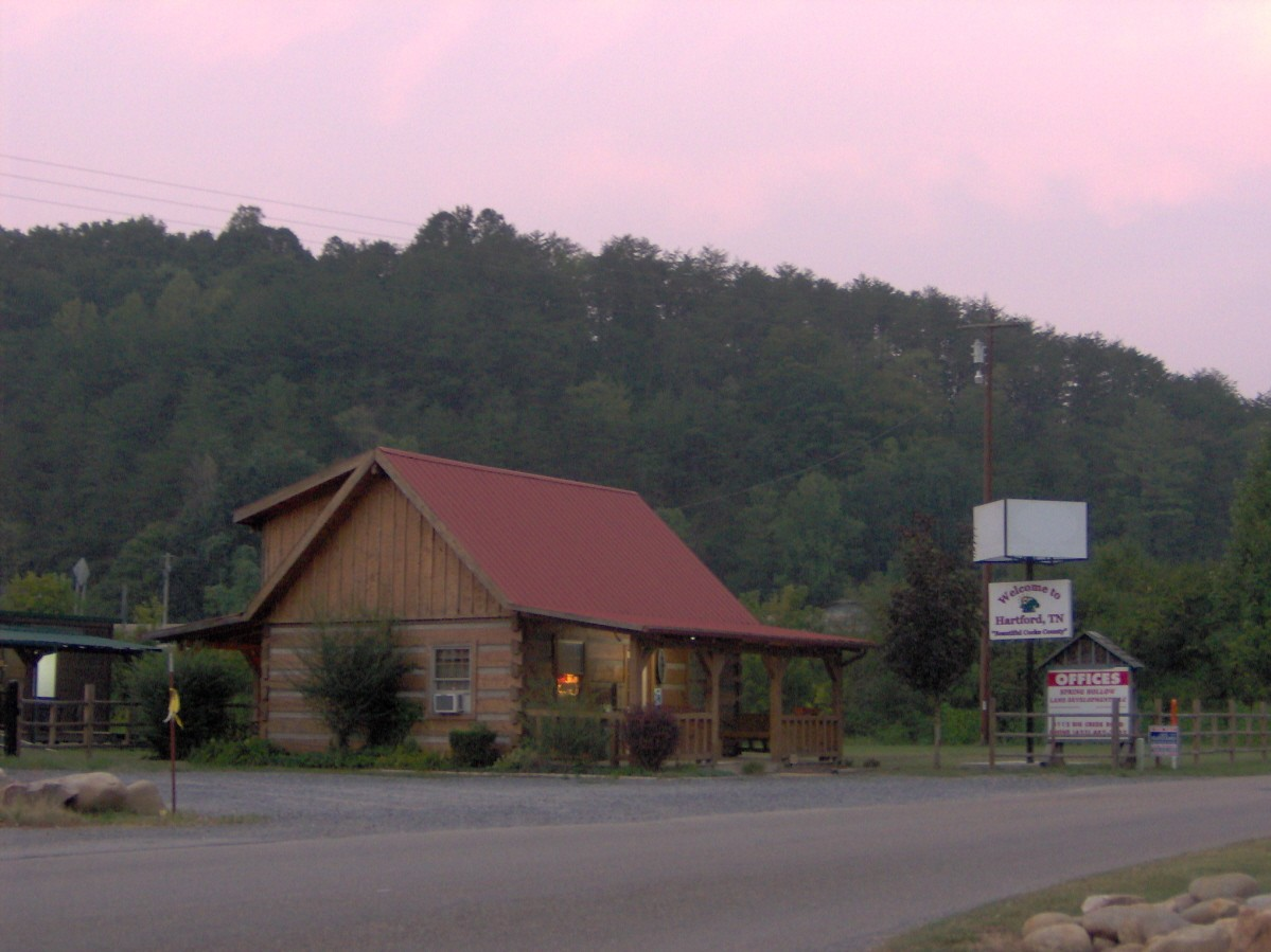 Office in Hartford, Tennessee.